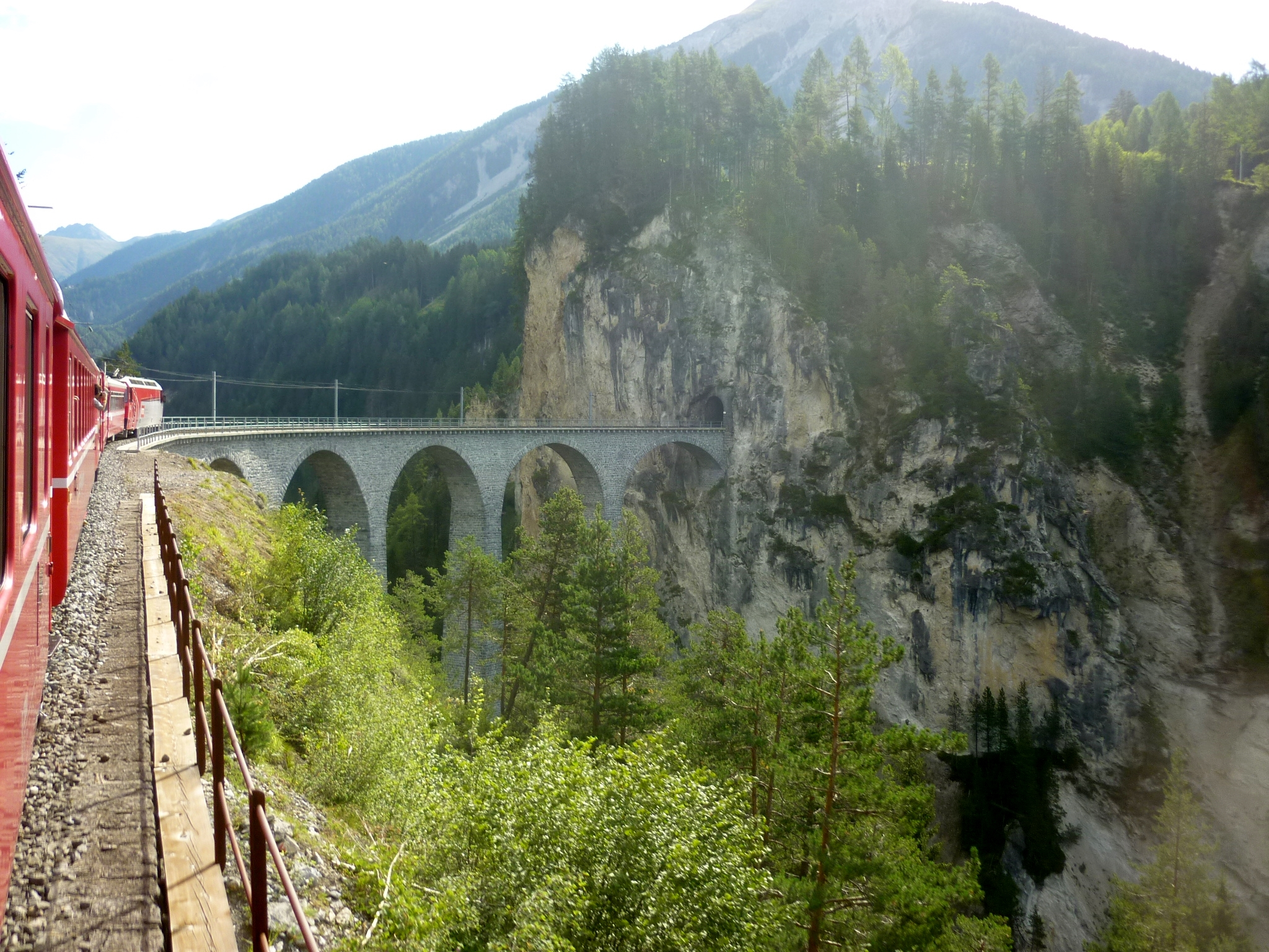 Bernina-Express of the Rhaetian Railway with the Landwasser Viaduct